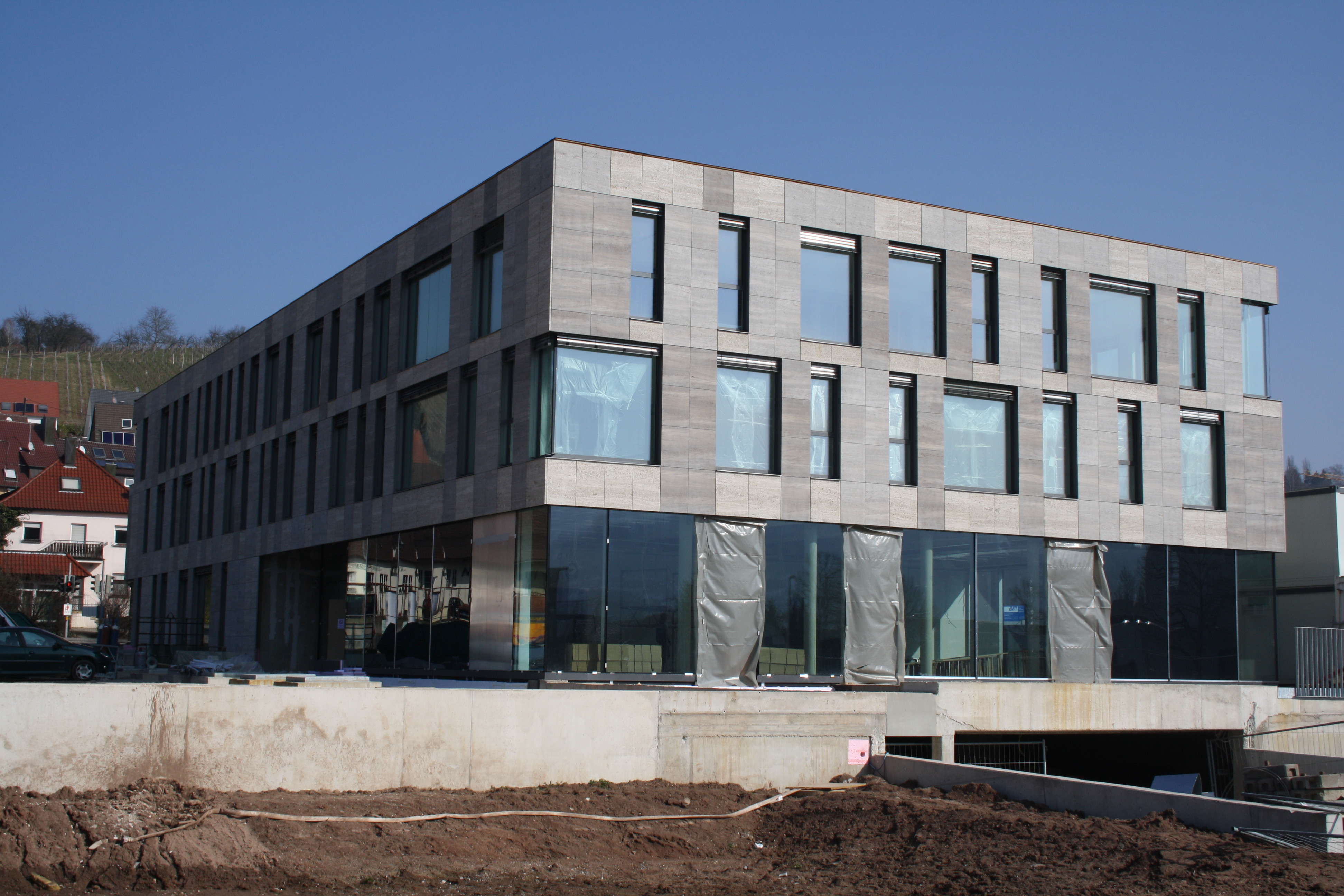 Neues Rathaus Remshalden im März 2011